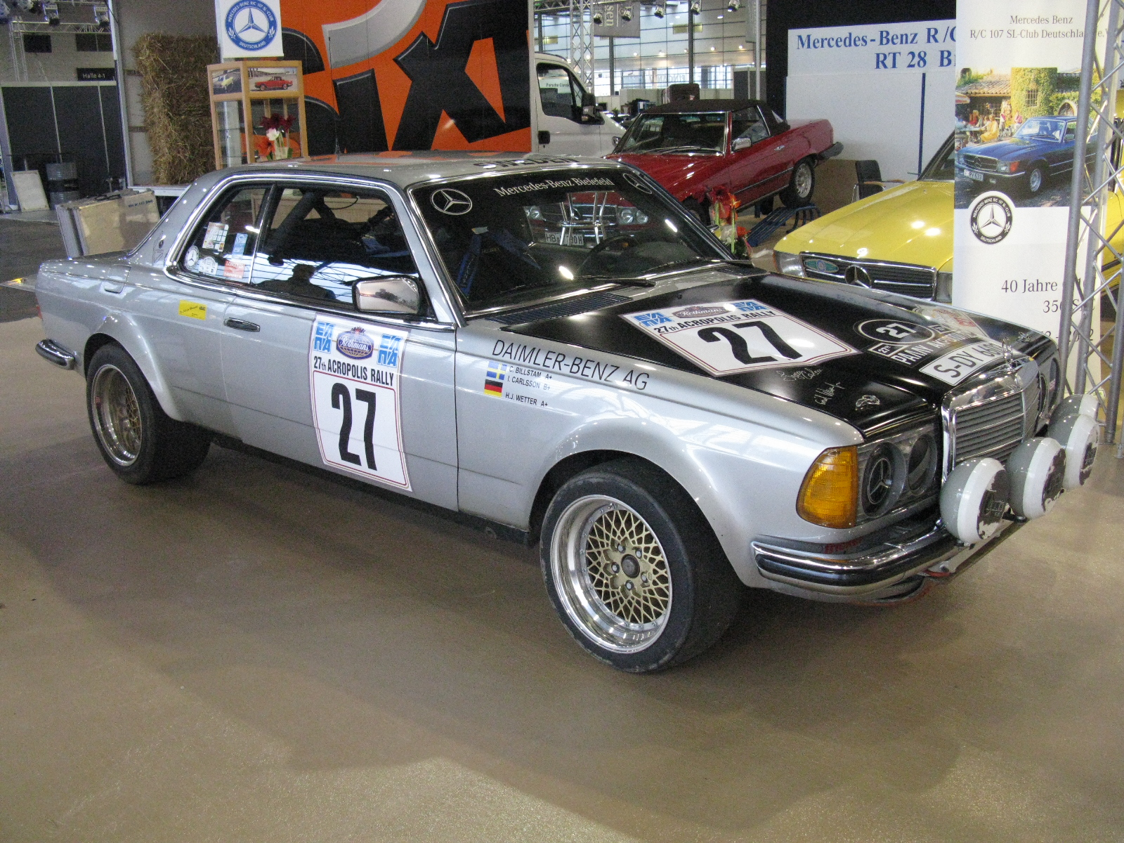 Mercedes-Benz 280 CE Rally Ingvar Carlsson